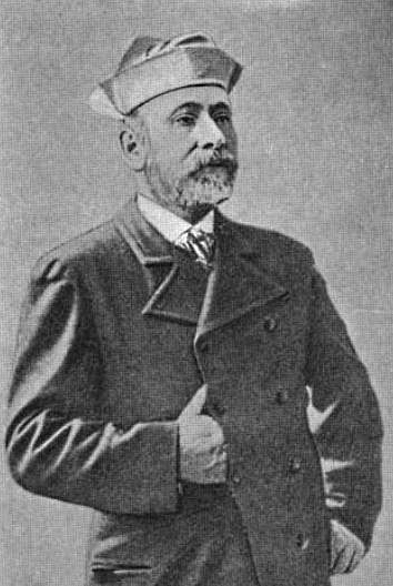 Danish-American sculptor Carl Rohl-Smith before his death in 1900.